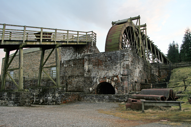 Killhope wheel The waterwheel and jigger house at Killhope lead mining museum.